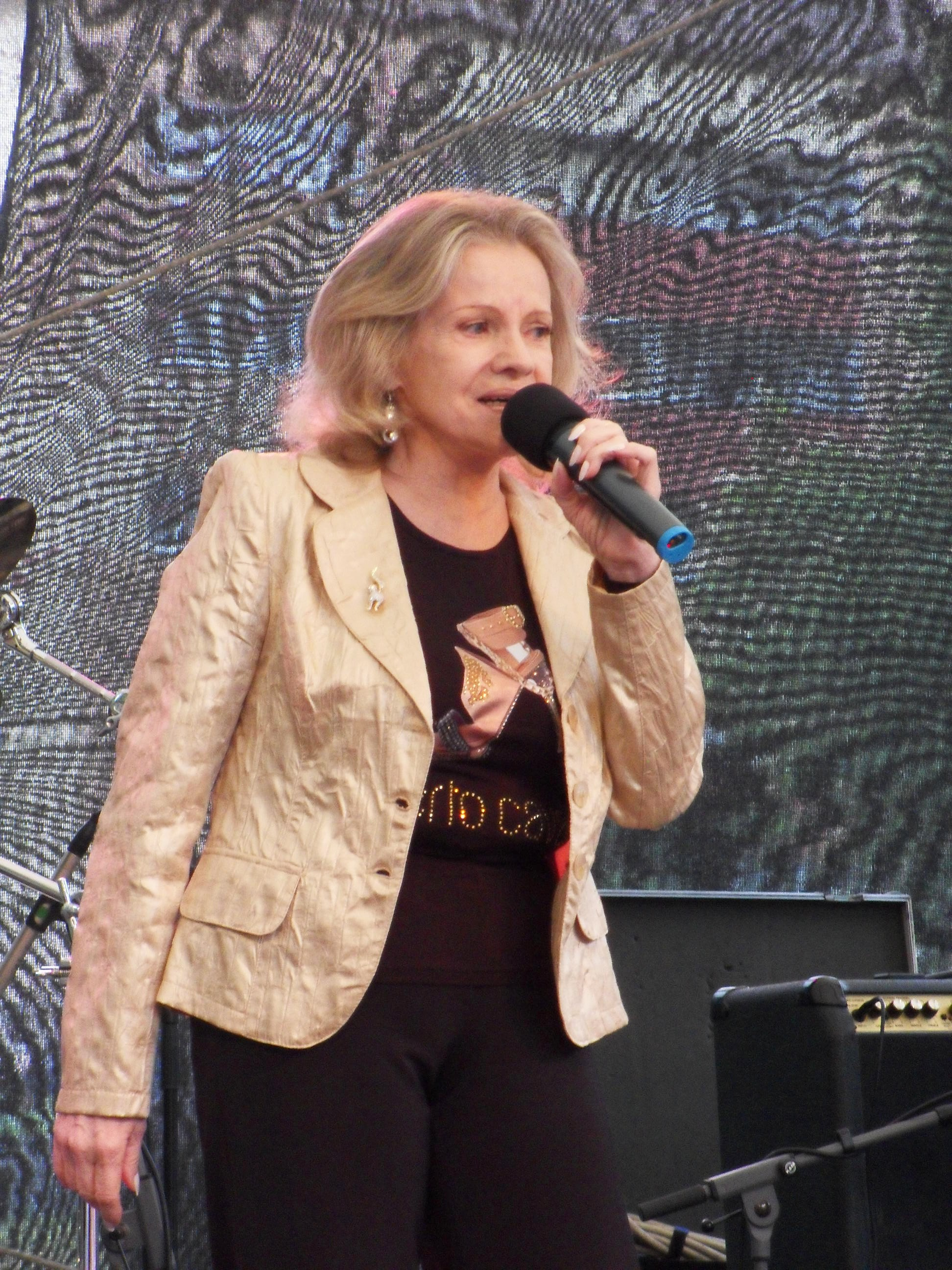 Czech singer Eva Pilarová, Brno, Czech Republic